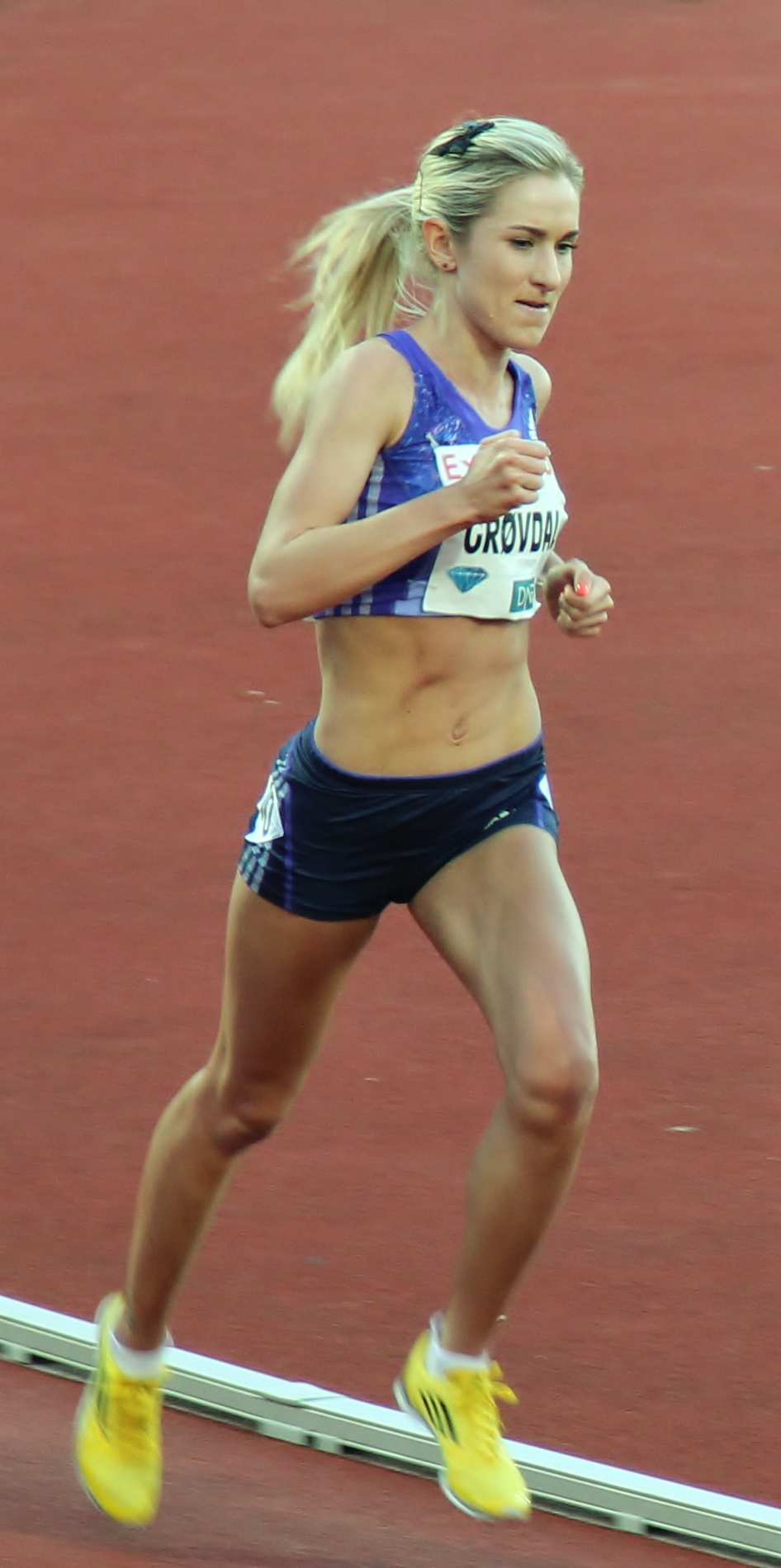 Karoline Bjerkeli Grøvdal at the 2015 Bislett Games